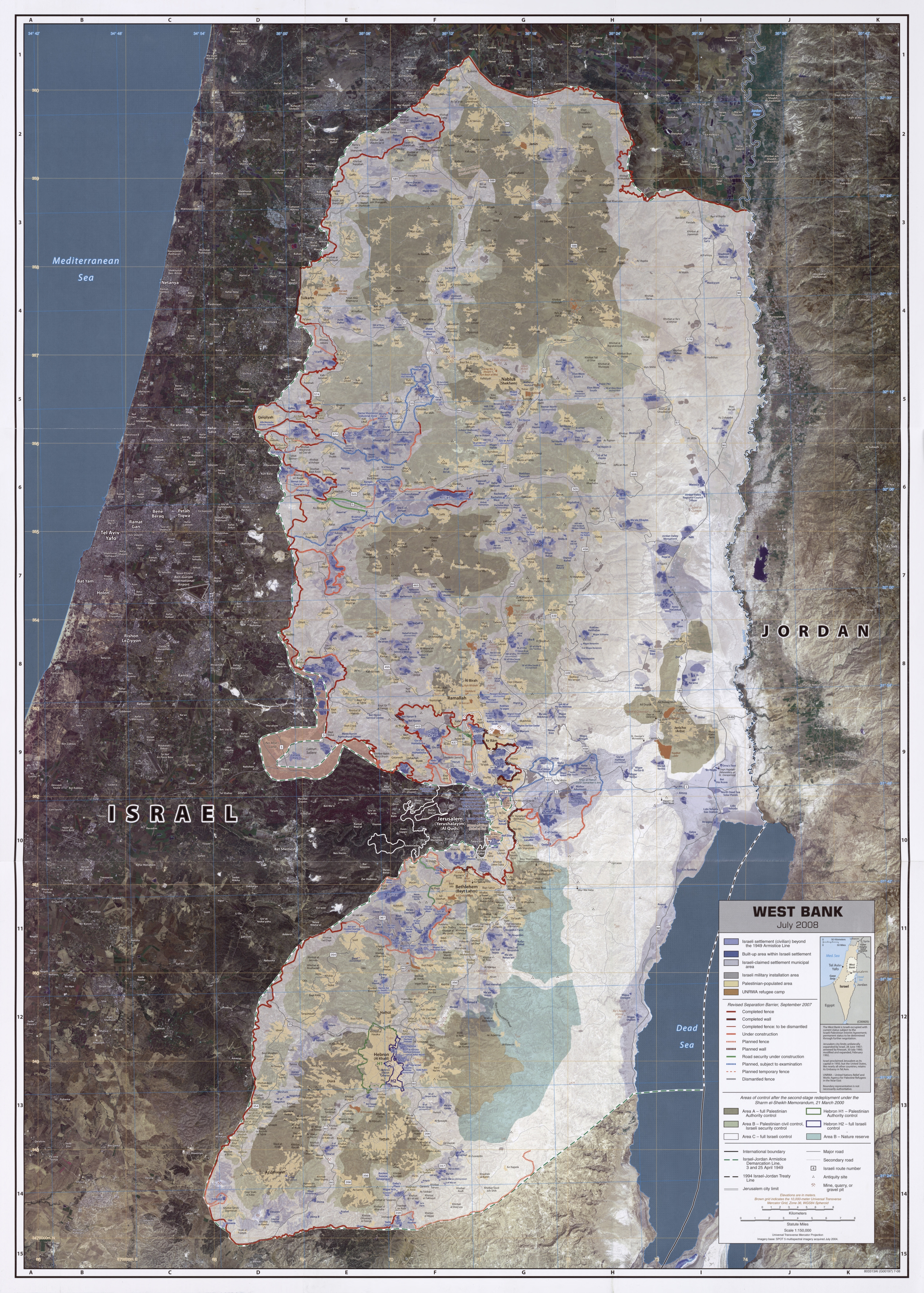 West Bank. United States. Central Intelligence Agency. CREATED/PUBLISHED [Washington, D.C. : Central Intelligence Agency, 2008] NOTES "July 2008." Relief shown by spot heights. "Boundary representation is not necessarily authoritative." Universal transverse Mercator grid, zone 36. Includes location map. Indexes of Israeli settlement areas and Palestinian-populated areas on verso. "803313AI (G00197) 7-08." Scale 1:150,000 ; universal transverse Mercator proj. (E 34042'--E 35042'/N 32030'--N 31024'). MEDIUM 1 map : col. ; 94 x 67 cm. CALL NUMBER G7512.W4 2008 .U5 REPOSITORY Library of Congress Geography and Map Division Washington, D.C. 20540-4650 USA DIGITAL ID g7512w ct002357 This is a smaller 3000-pixel-wide version of the original map. The original map on the Commons is 10,984 × 15,369 pixels, file size: 45.83 MB. This 3000-pixel-wide version of the map is 10.3 MB. Map shows areas interpreted by the CIA as Israeli settlements, Israeli claimed settlement municipal areas, Israeli-military installation areas, Palestinian-populated areas and UNRWA refugee camps together with the West Bank barrier and the various 'Areas of control'